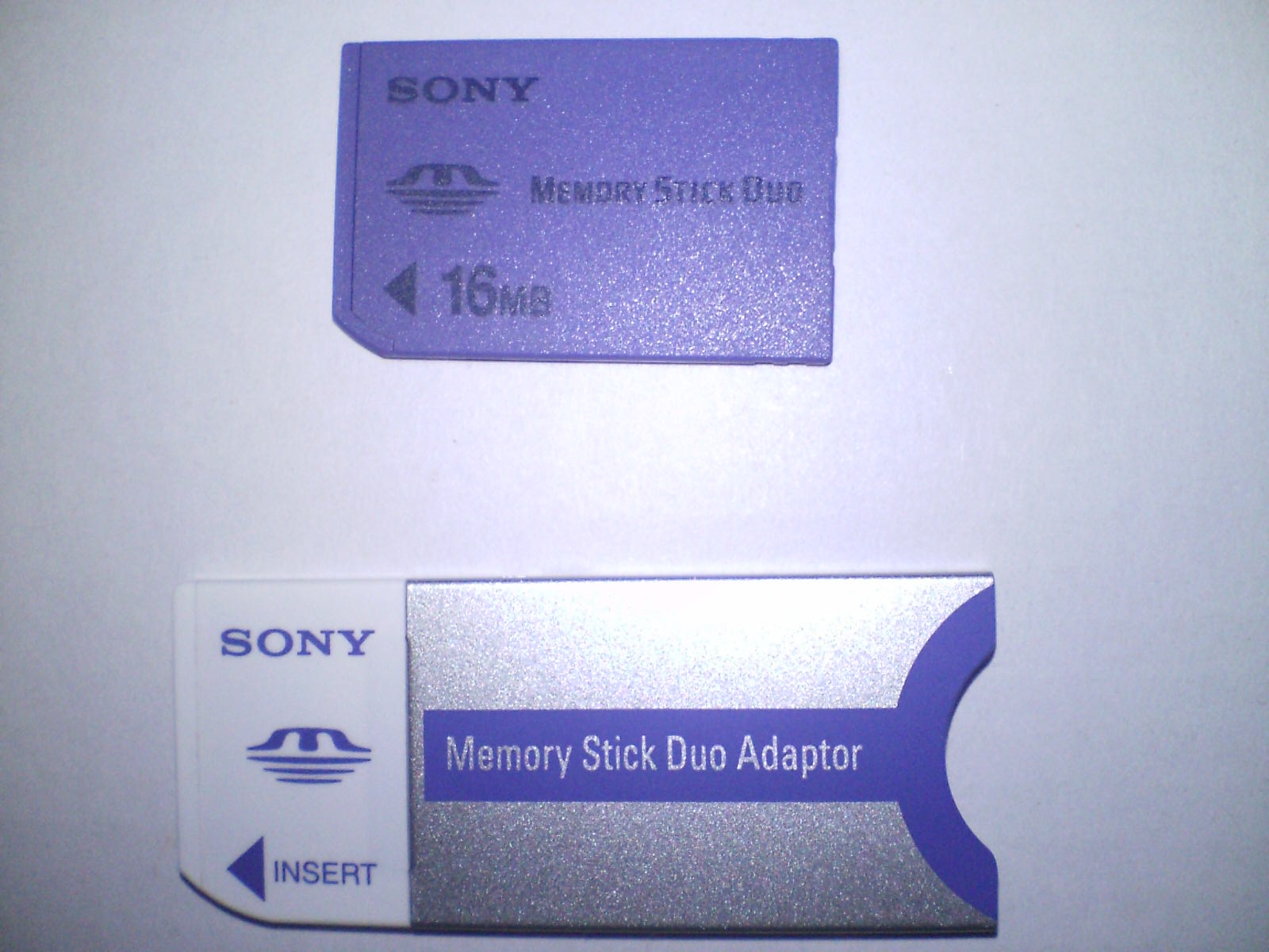 Memory Stick and adapter